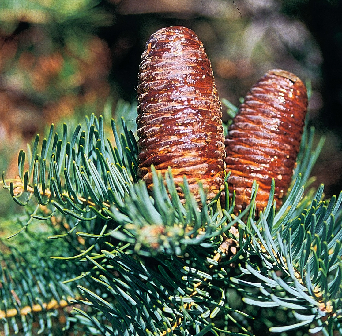 White Fir. Cones.